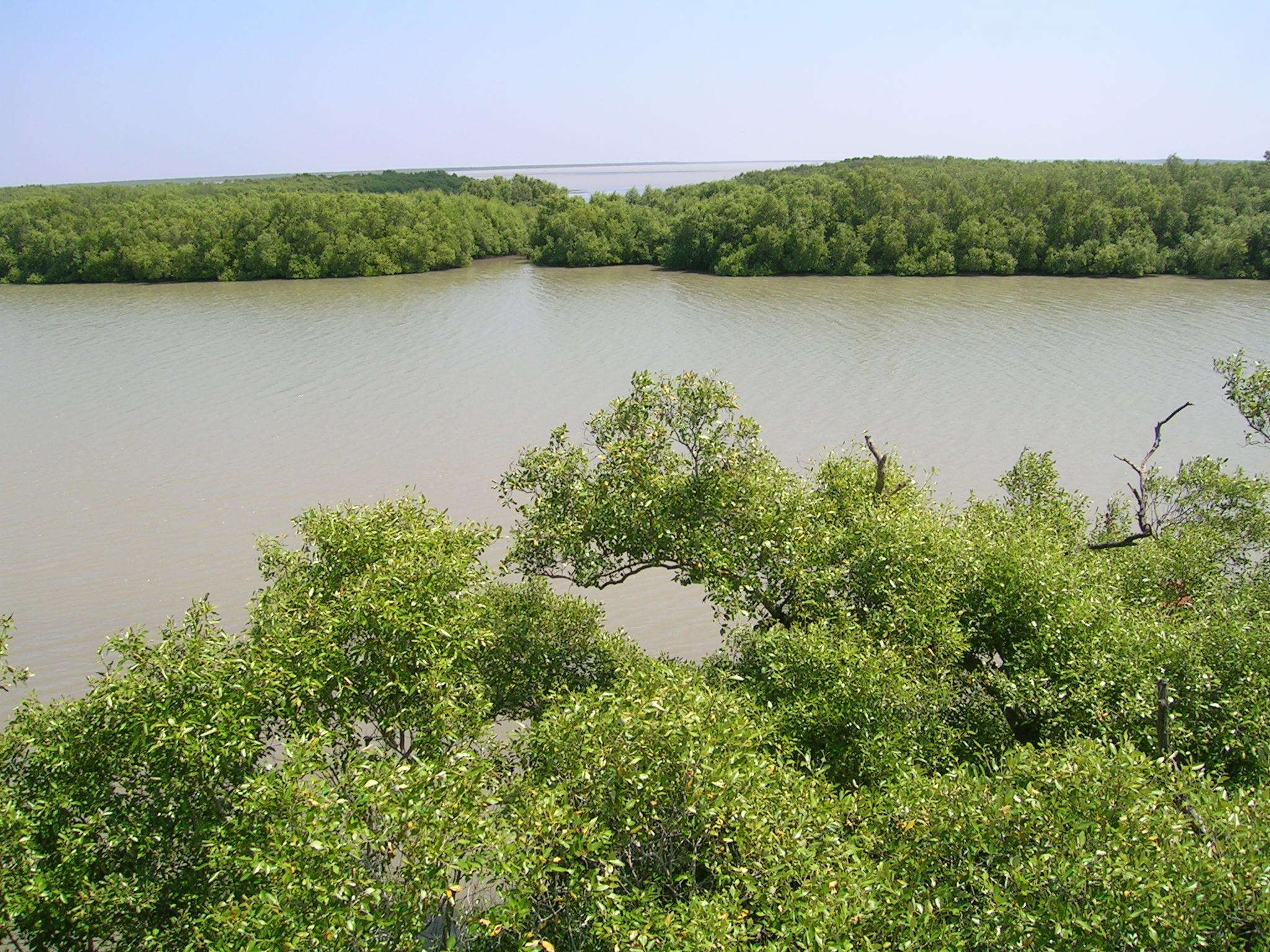 Mangrove island, Muthupet, Tamil Nadu